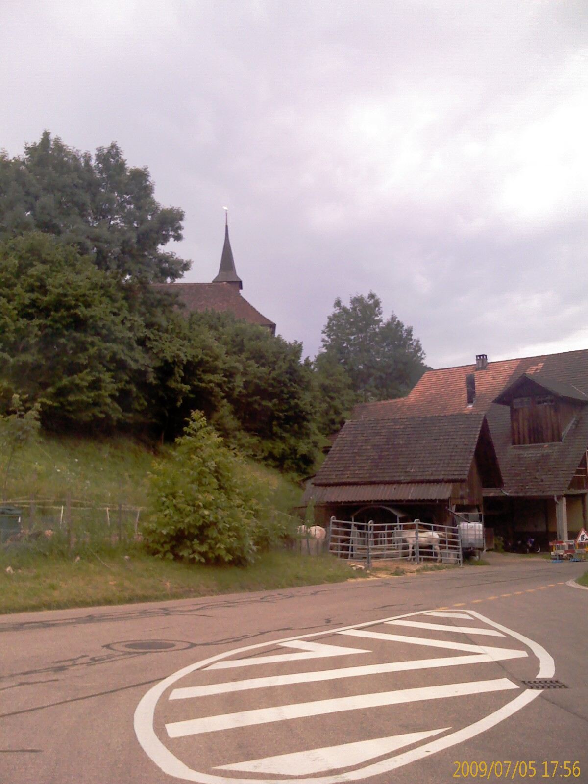 Church of Wintersingen, canton of Basel-Country, SwitzerlandEsperanto: Preĝejo de Wintersingen, Kantono Bazelo Kampara, Svislando